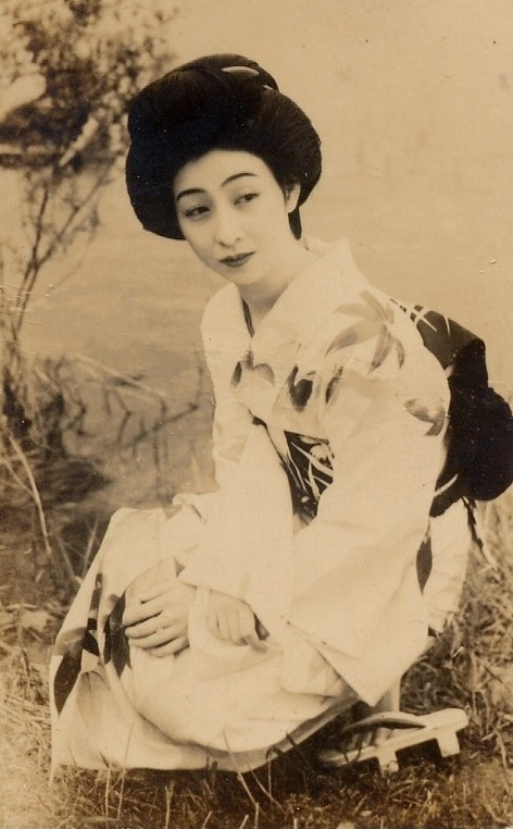 Portrait of the actress Toshiko Iizuka